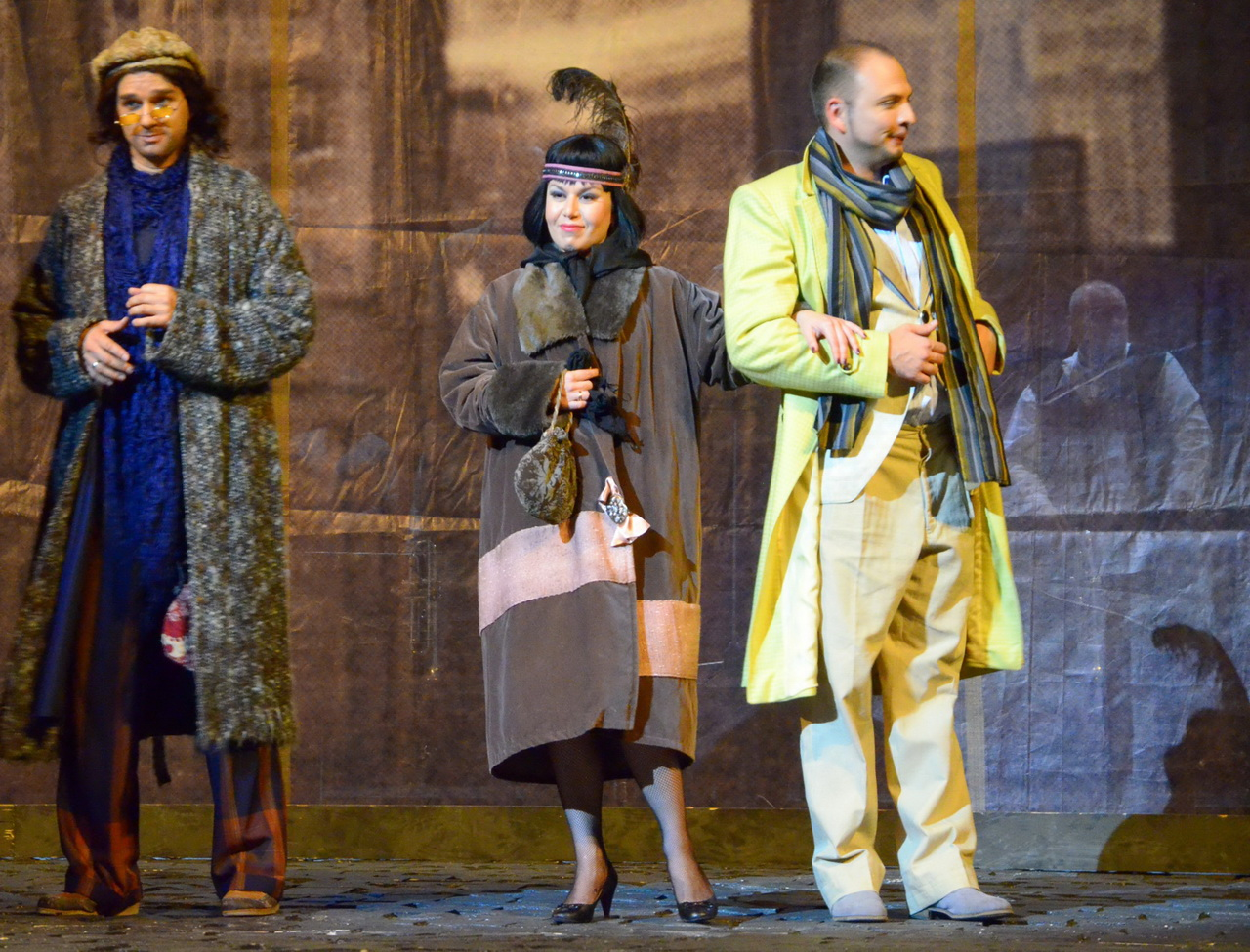 La bohème composed by Giacomo Puccini, Goran Krneta, bass, Darija Olajoš Čizmić, soprano, Nebojša Babić, baritone, SNT, Novi Sad, 2006/2007 Srpski (latinica): Boemi, opera Đ. Pučinija, Goran Krneta, bas, Darija Olajoš Čizmić, sopran, Nebojša Babić, bariton, SNP, Novi Sad, 2006/2007 Српски (ћирилица): Боеми, опера Ђ. Пучинија, Горан Крнета, бас, Дарија Олајош Чизмић, сопран, Небојша Бабић, баритон, СНП, Нови Сад, 2006/2007